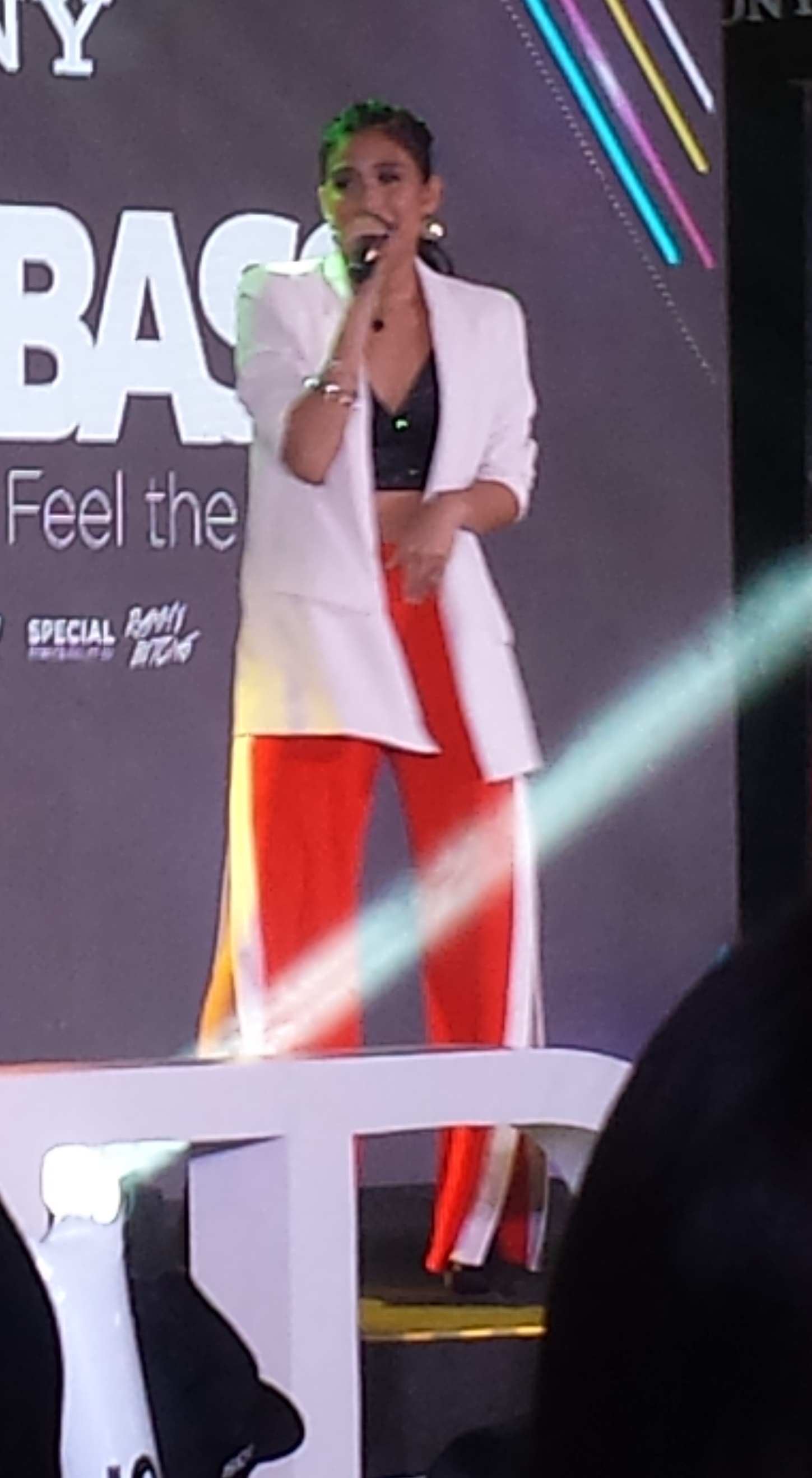 Gabbi Garcia at a Sony promotional event in 2018